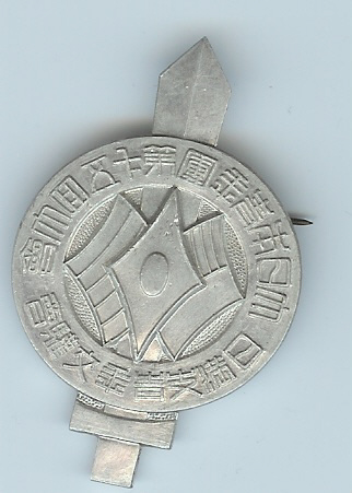 Great Japan Youth Party pin. Made sometime between 1939 and 1945. "15th meeting of Great Japan Youth Group. Japan, China and Manchuria youth culture progress meeting."